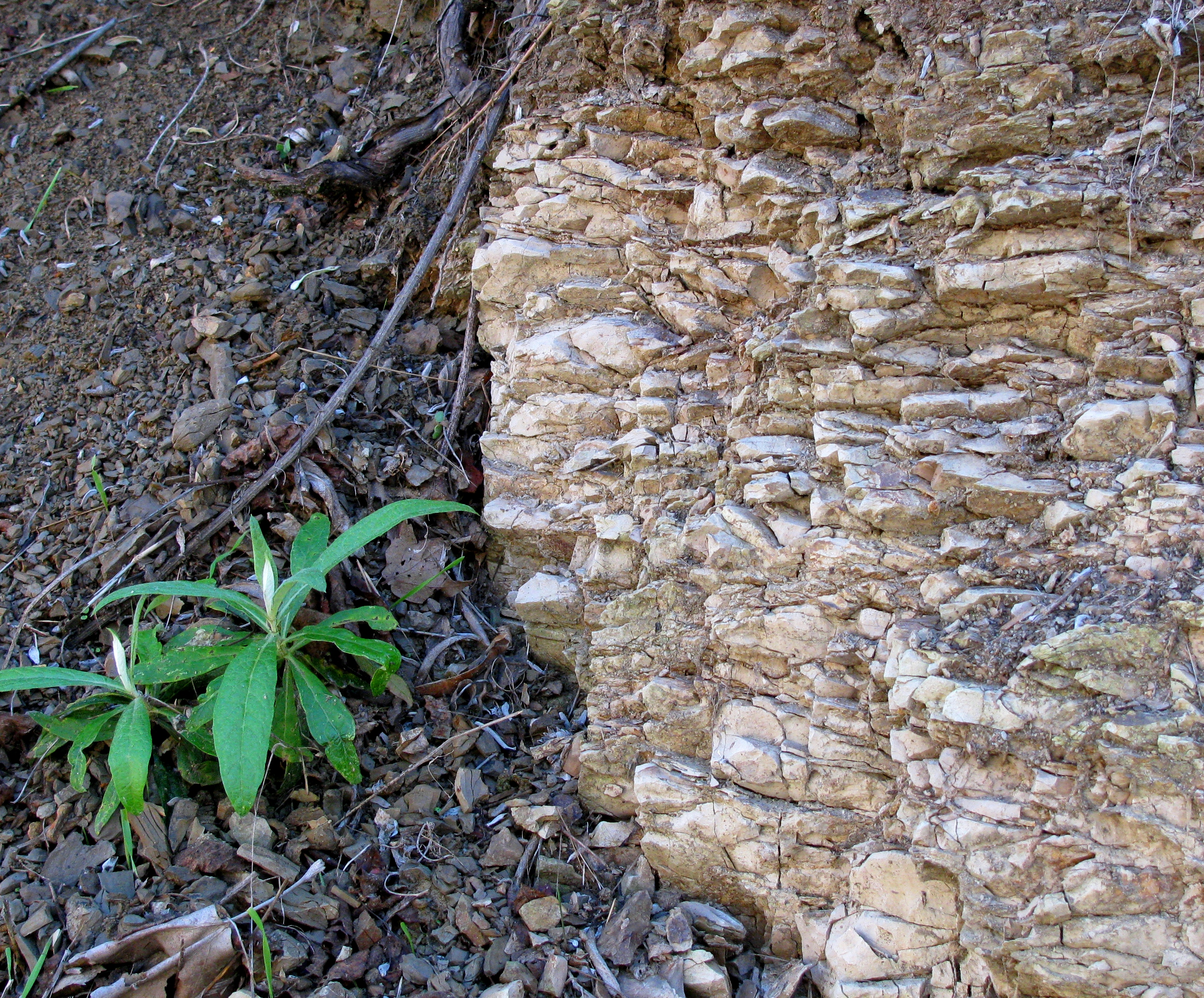 Rincon Formation; closeup of broken, weathered shale unit in Sycamore Canyon.